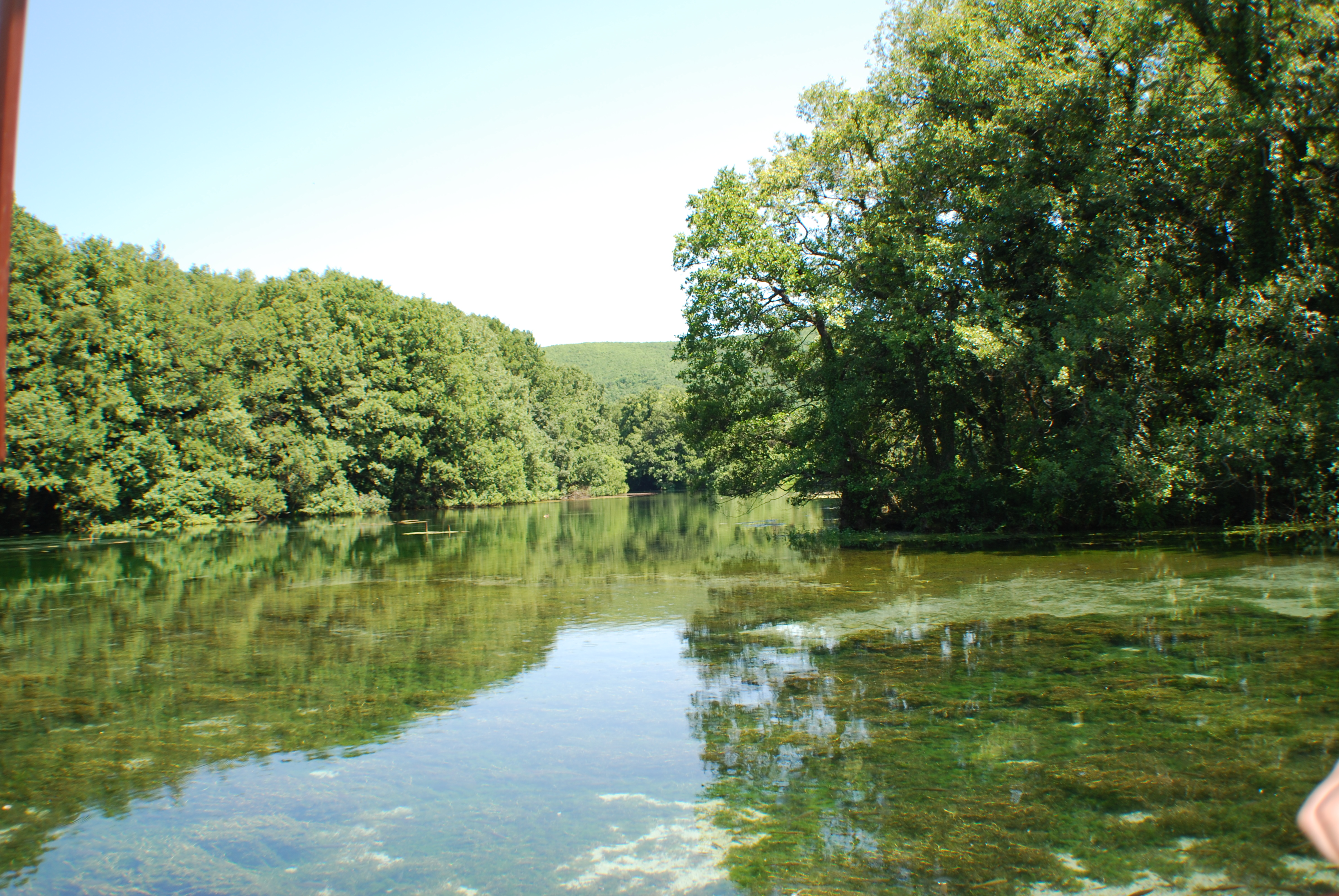 Springs St. Naum, part of the National Park Galičica. Lake Ohrid, Macedonia